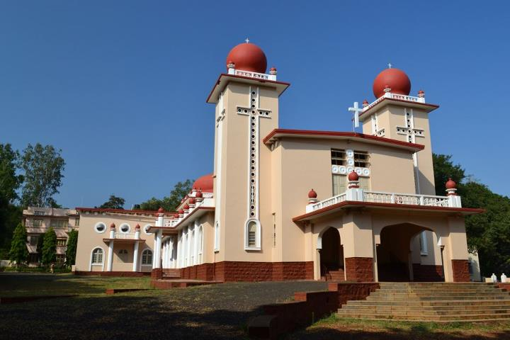 An image of Fatima Cathedral, the mother church of the Roman Catholic Diocese of Belgaum, India.